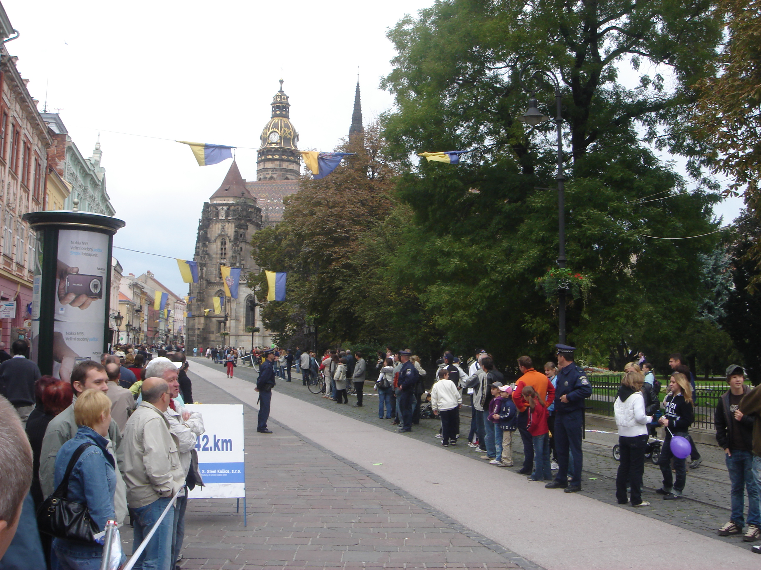 84th International Peace Marathon in Kosice, Slovakia